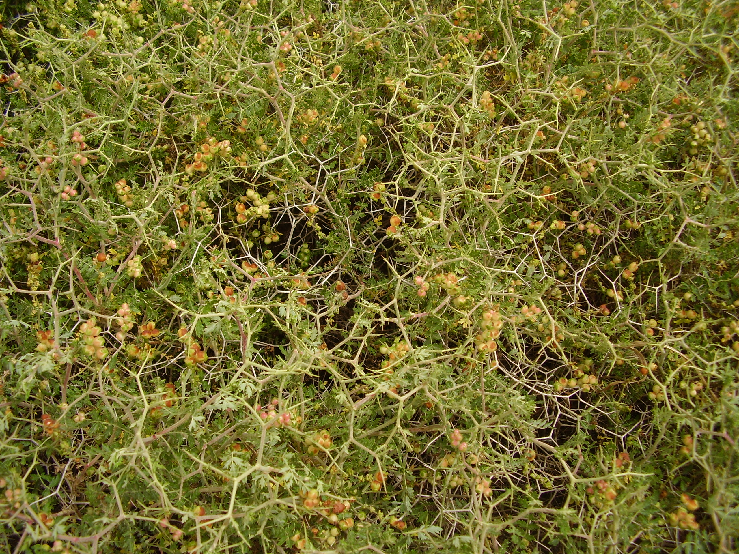 Photographed on 07 April 2007 in the Nahal Taninim nature reserve.